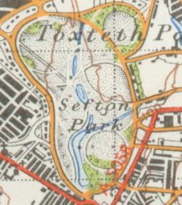 map of Sefton Park from 1947.